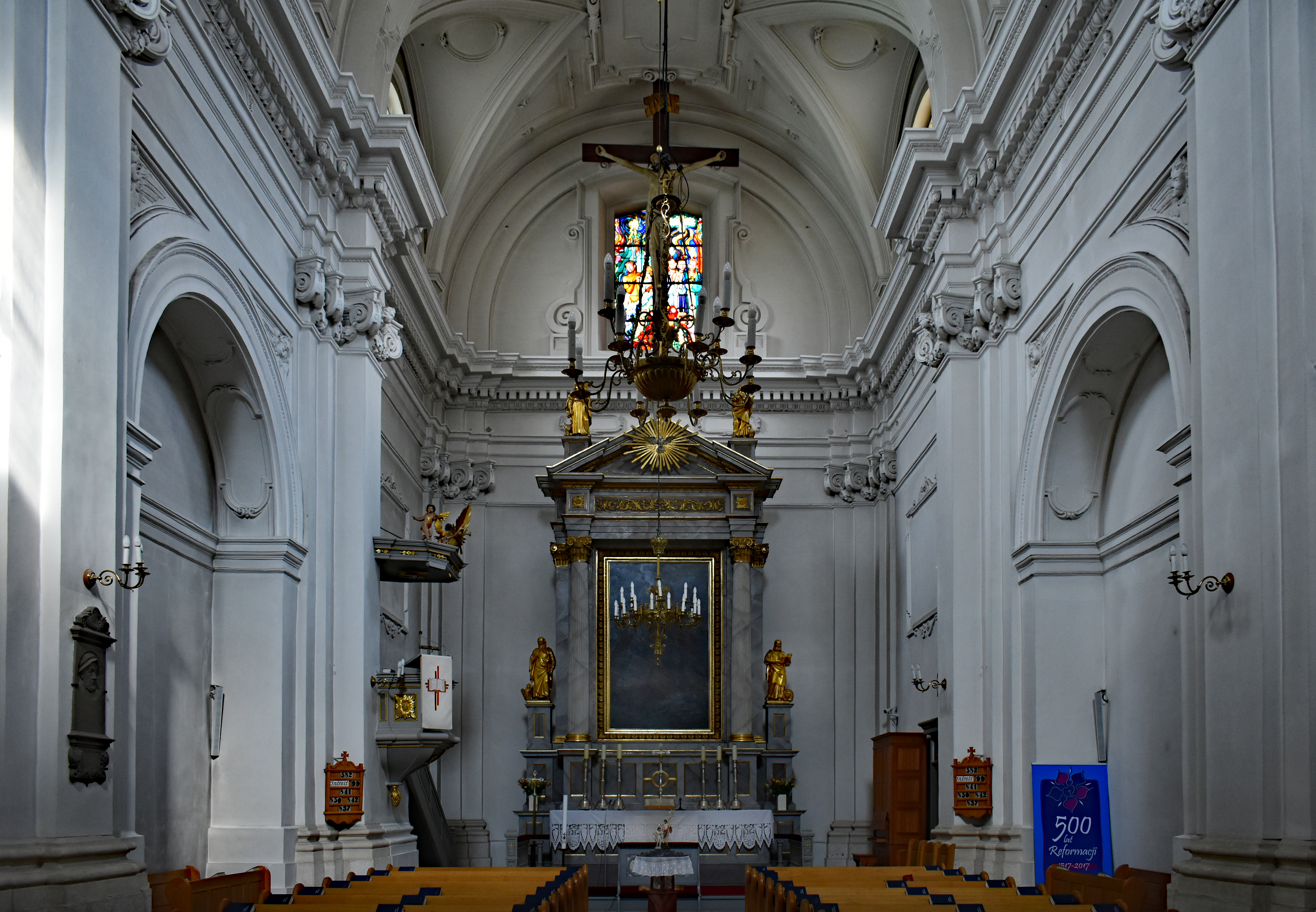 Church of St. Martin (Evangelical Augsburg), 58 Grodzka street, Old Town, Krakow, Poland